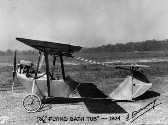 Etienne Dormoy's Flying Bathtub